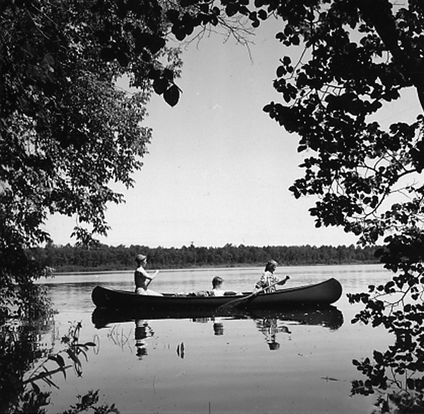 Original Caption: Canoe Tripping by Girl Scouts of Camp Cassaway. This Minneapolis Girl Scout Camp on Cass Lake is privately owned. U.S. National Archives’ Local Identifier: 502420 From:: Series: Historic Photographs, compiled ca. 1880 - ca. 1970 Created By:: Department of Agriculture. Forest Service. Region 9 (Eastern Region). (1965 - ) (Most Recent) Department of Agriculture. Division of Forestry. (1881 - 07/01/1901) (Predecessor) Production Date: 07/1962 Persistent URL: Repository: NARA's Great Lakes Region, Chicago, IL For information about ordering reproductions of photographs held by the Still Picture Unit, visit: Reproductions may be ordered via an independent vendor. NARA maintains a list of vendors at Buy copies of selected National Archives photographs and documents at the National Archives Print Shop online: Access Restrictions: Unrestricted Use Restrictions: Unrestricted